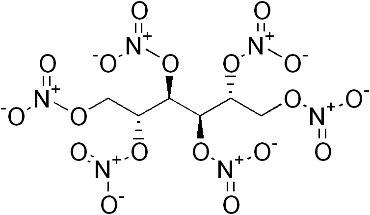 chemical structure of nitromannite